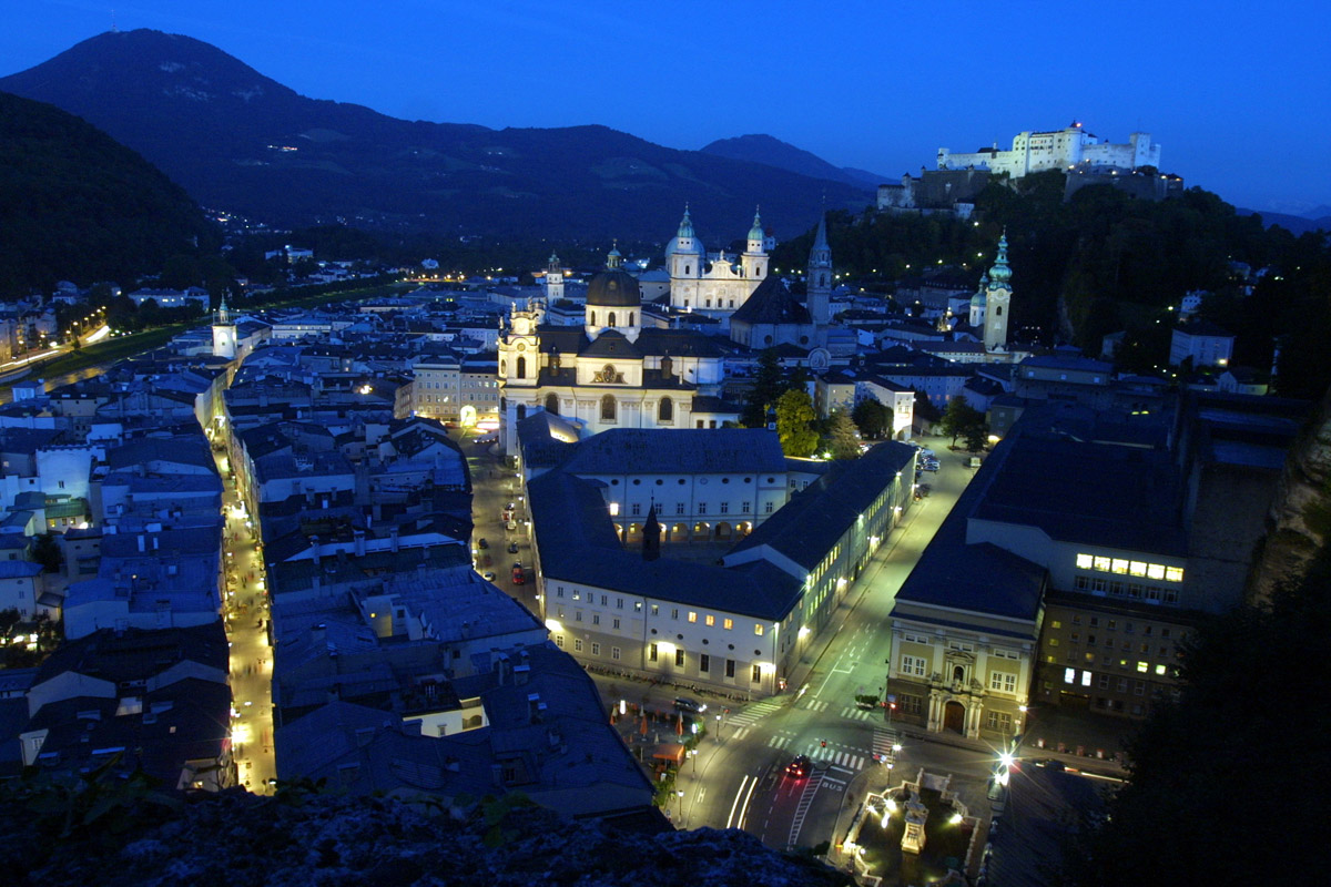 City of Salzburg (Austria) with its old town and its fortress, view from Mönchsberg.